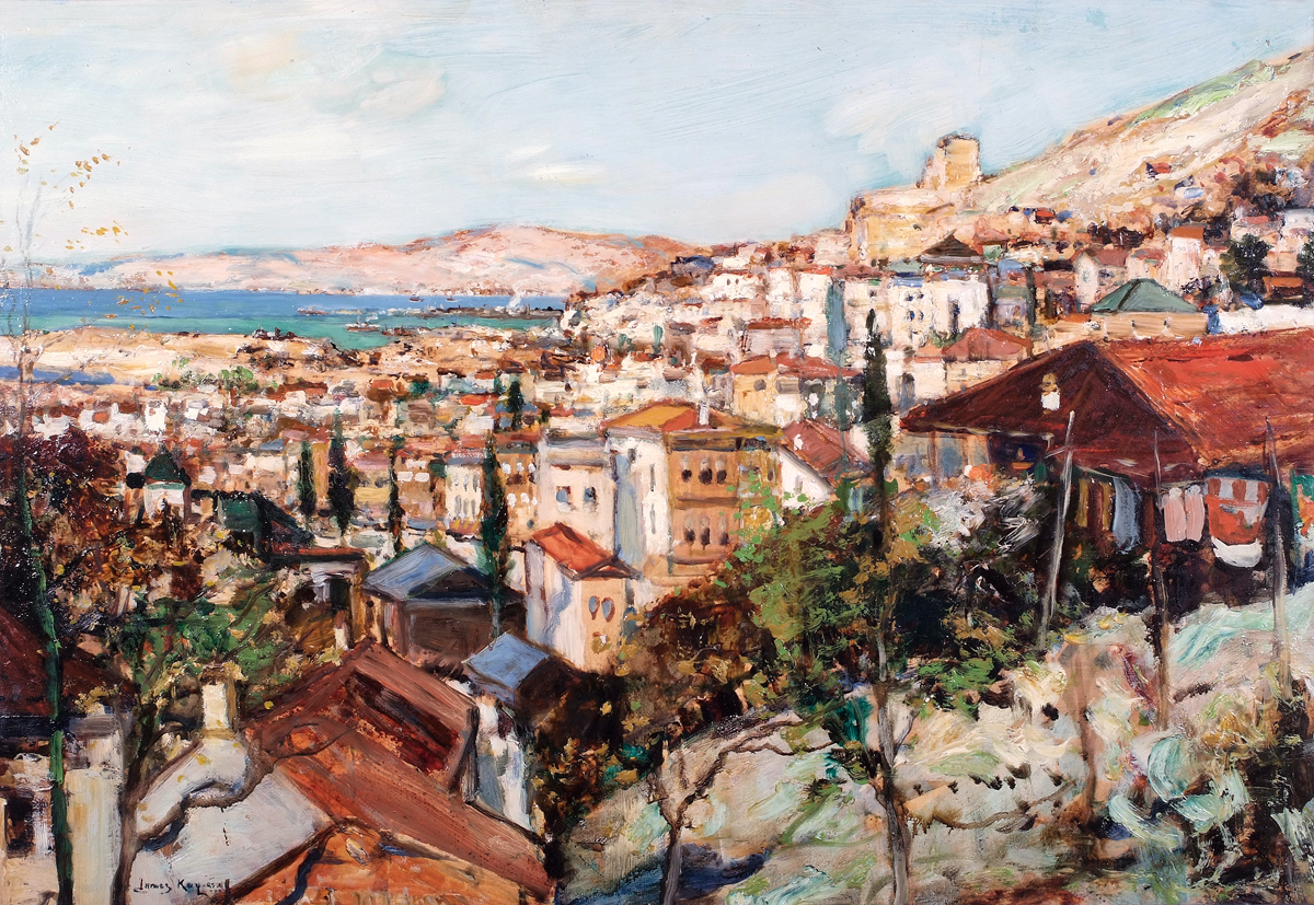 Gibraltar - James Kay - now in Aberdeen Art Gallery & Museums before 1942